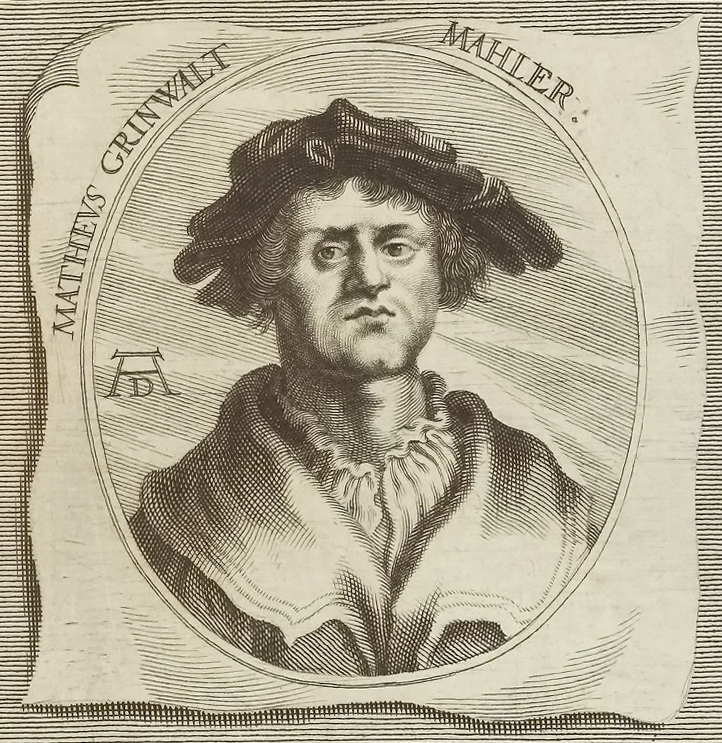 The engraving does not actually show Matthias Grünewald but a stranger following the Male Portrait with overgown and wide-brimmed hat by Wolf Huber from 1522